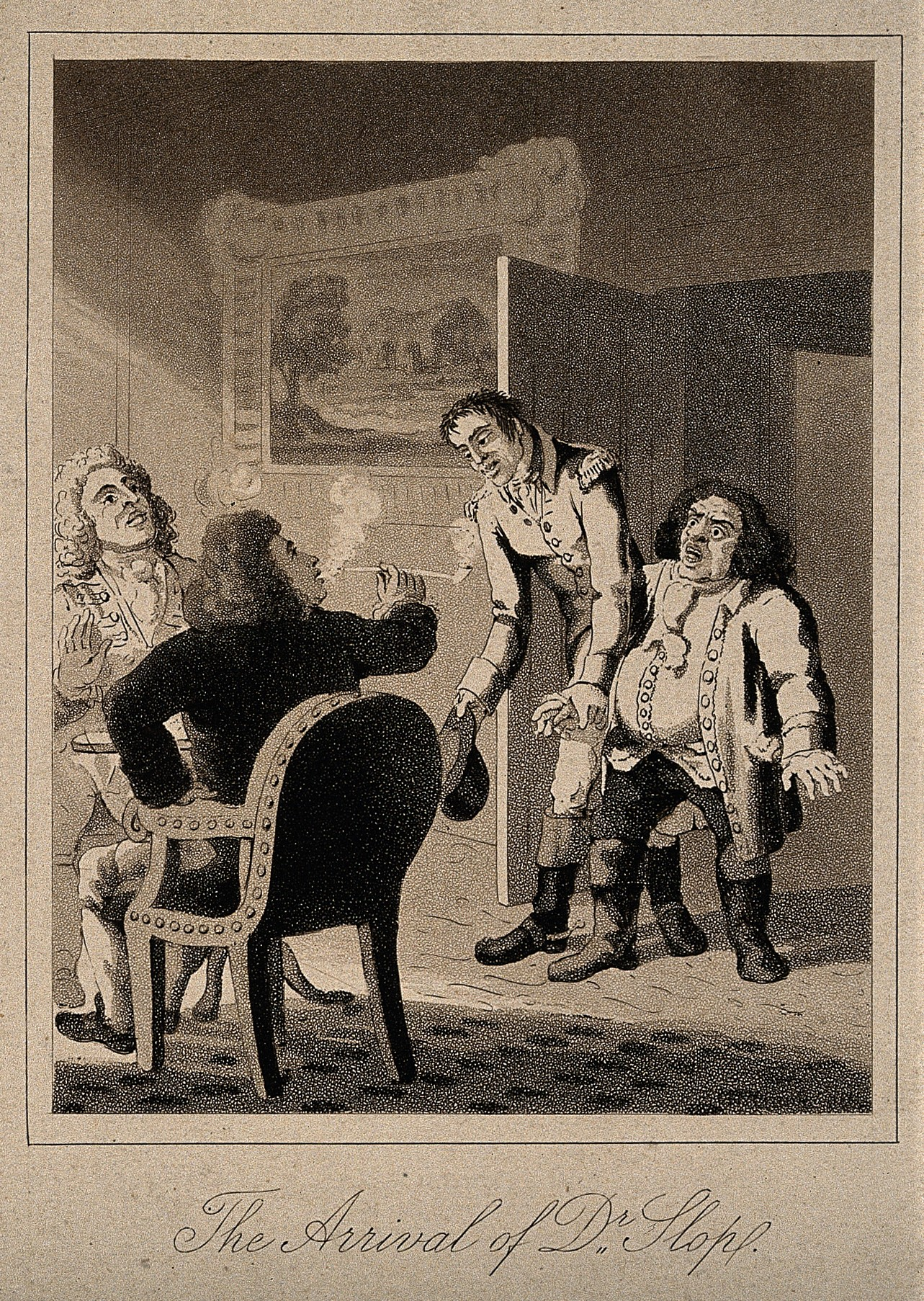 Dr. Slop arriving at the home of Tristram Shandy, his father is seated with a friend and smoking. Aquatint by J.H. Clark after L. Sterne. Iconographic Collections Keywords: Doctor Slop; J.H. Clark; Laurence Sterne